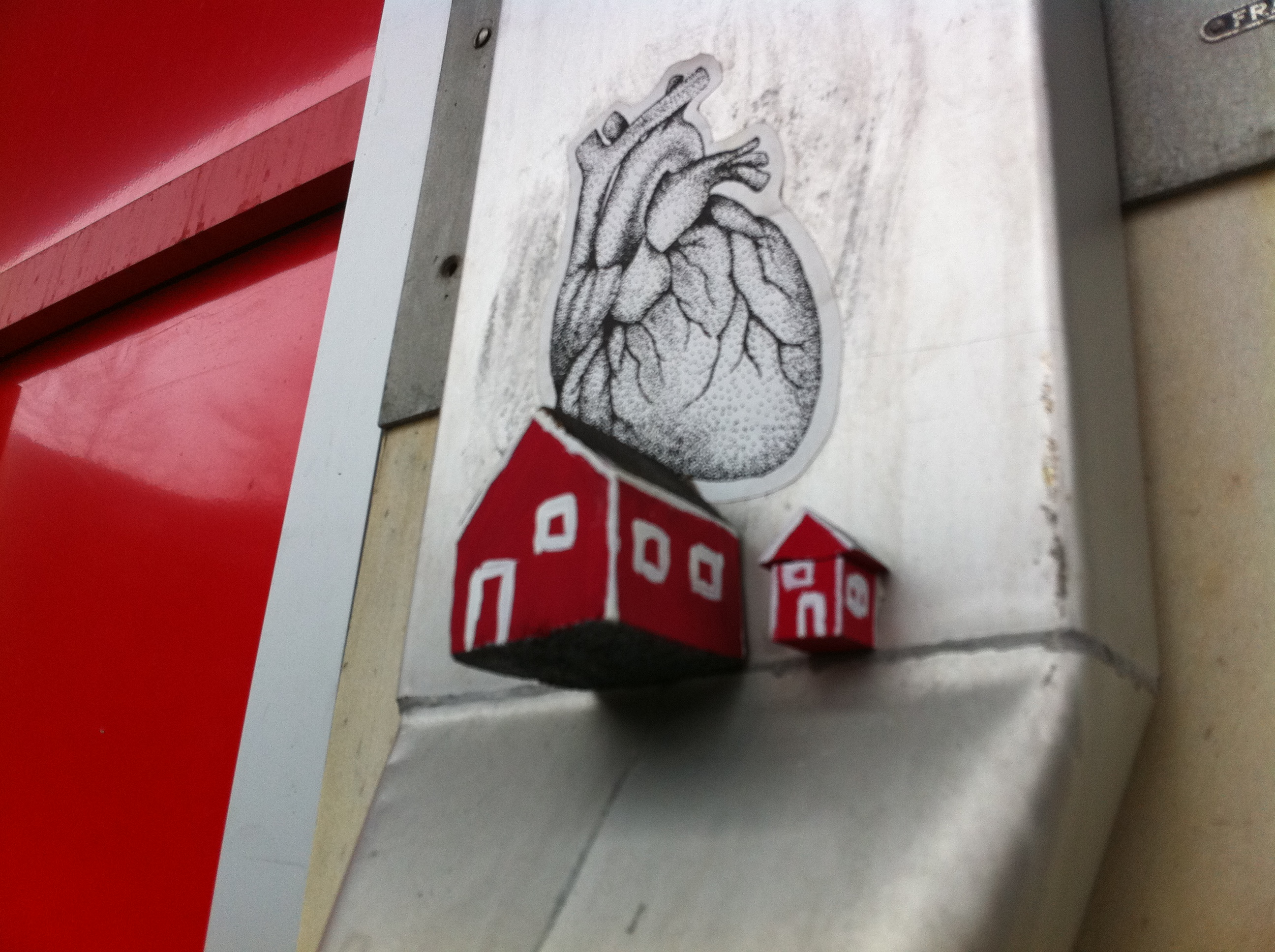 Street art in Skellefteå.